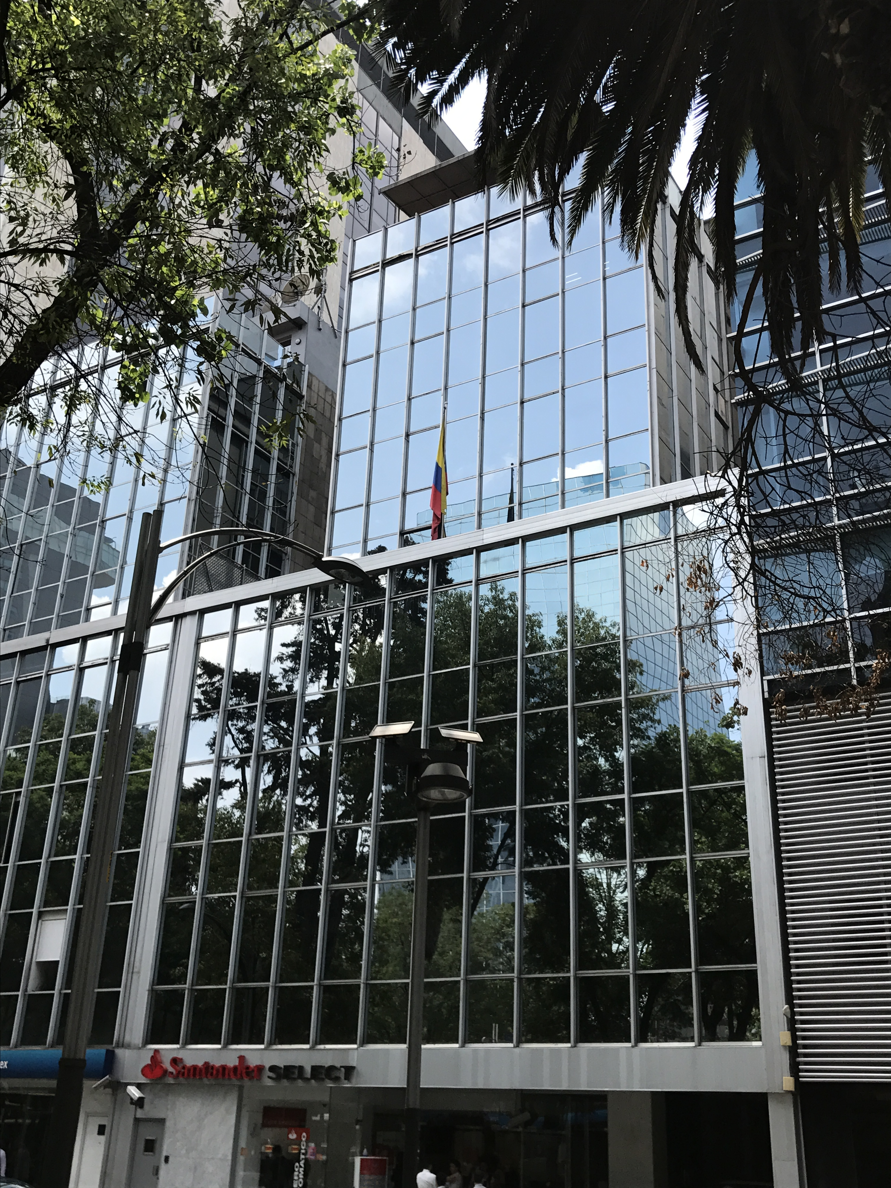 Embassy of Colombia in Mexico City